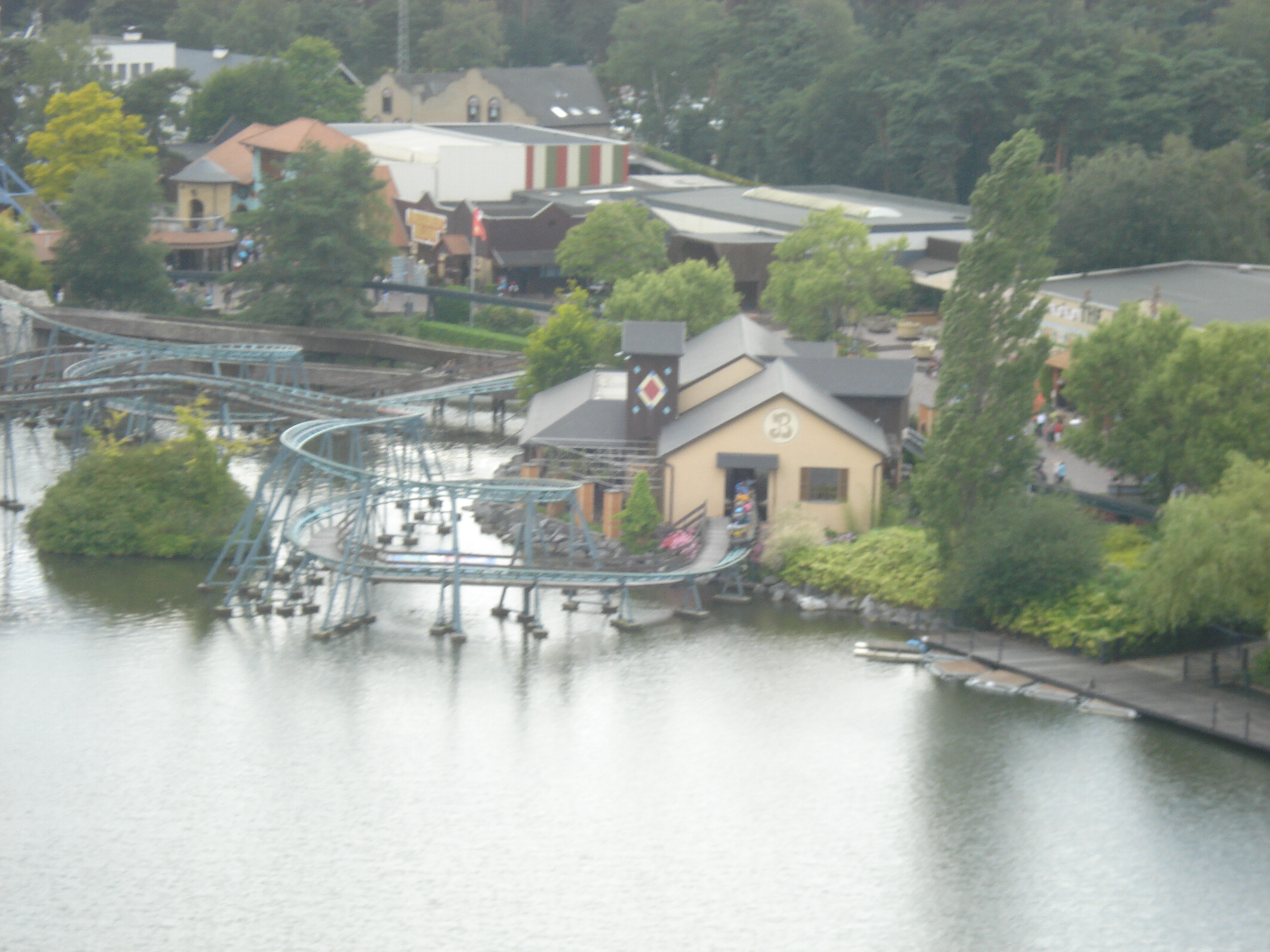 Bobbejaanland Bob Express